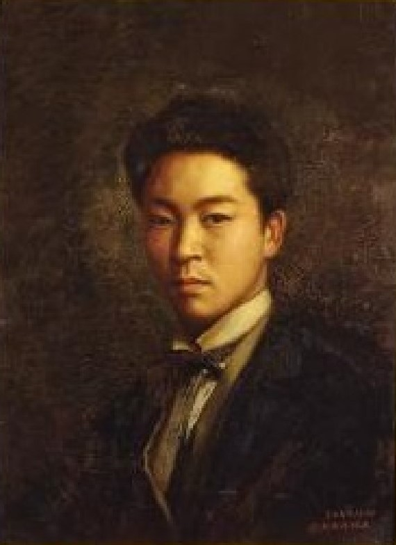 Goseda Selfportrait